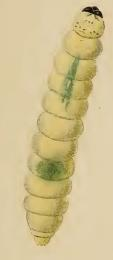 Stainton’s Natural History of the Tineina (1855–1873): Bucculatrix gnaphaliella